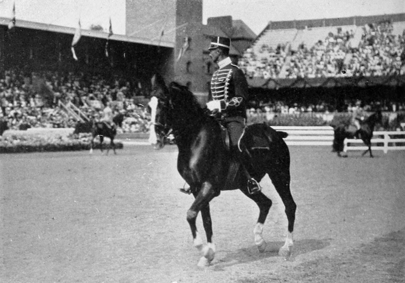 Carl Bonde (1872-1957) at the 1912 Summer Olympics